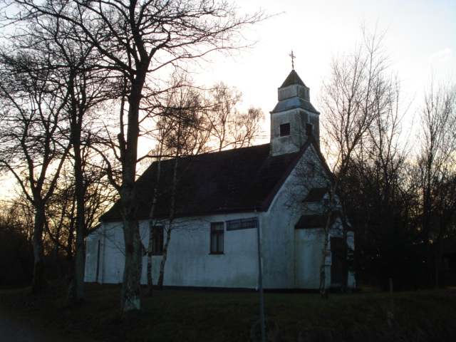 Sankt Mikaels Kirke, Pindstrup / the catholic Saint Michaels Church, Pindstrup, Jutland, Denmark